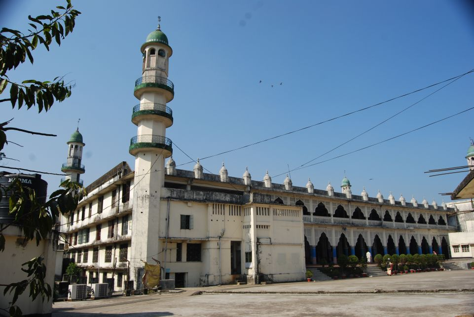 Andar Killa Mosque, Chittagong, Bangladesh.